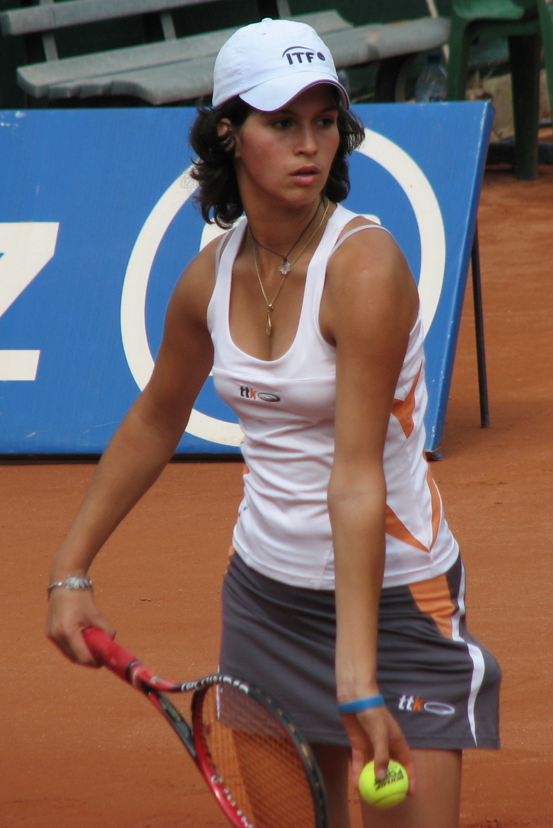 Isabella Shinikova Allianz Cup 2009